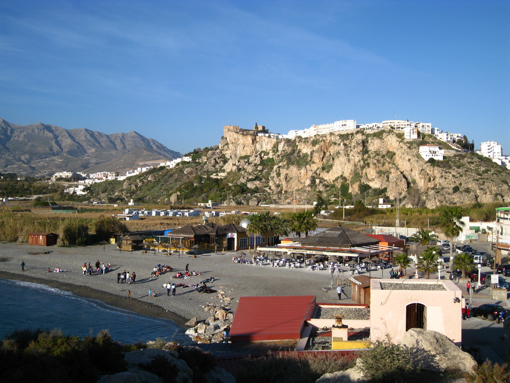 Beach and castle of Salobreña, Spain.